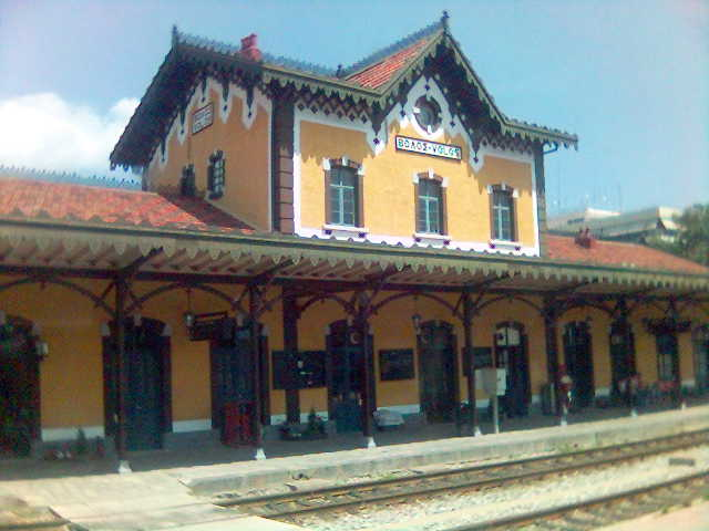 Rail station of Volos, Magnesia, Greece (2005).